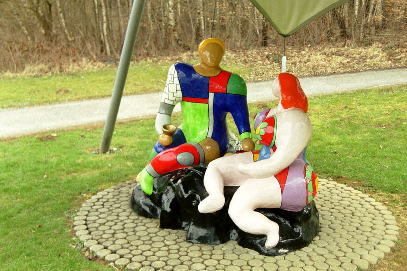 Niki de St. Phalle, Adam and Eva, 1987 - Germany, Baden-Wuerttemberg, Ulm, Kunstpfad Universitaet Ulm